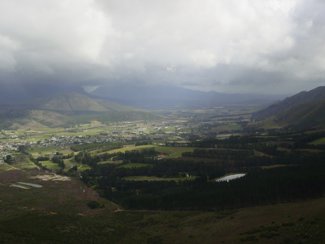 Franschoek Valley, Franschoek, South Africa.